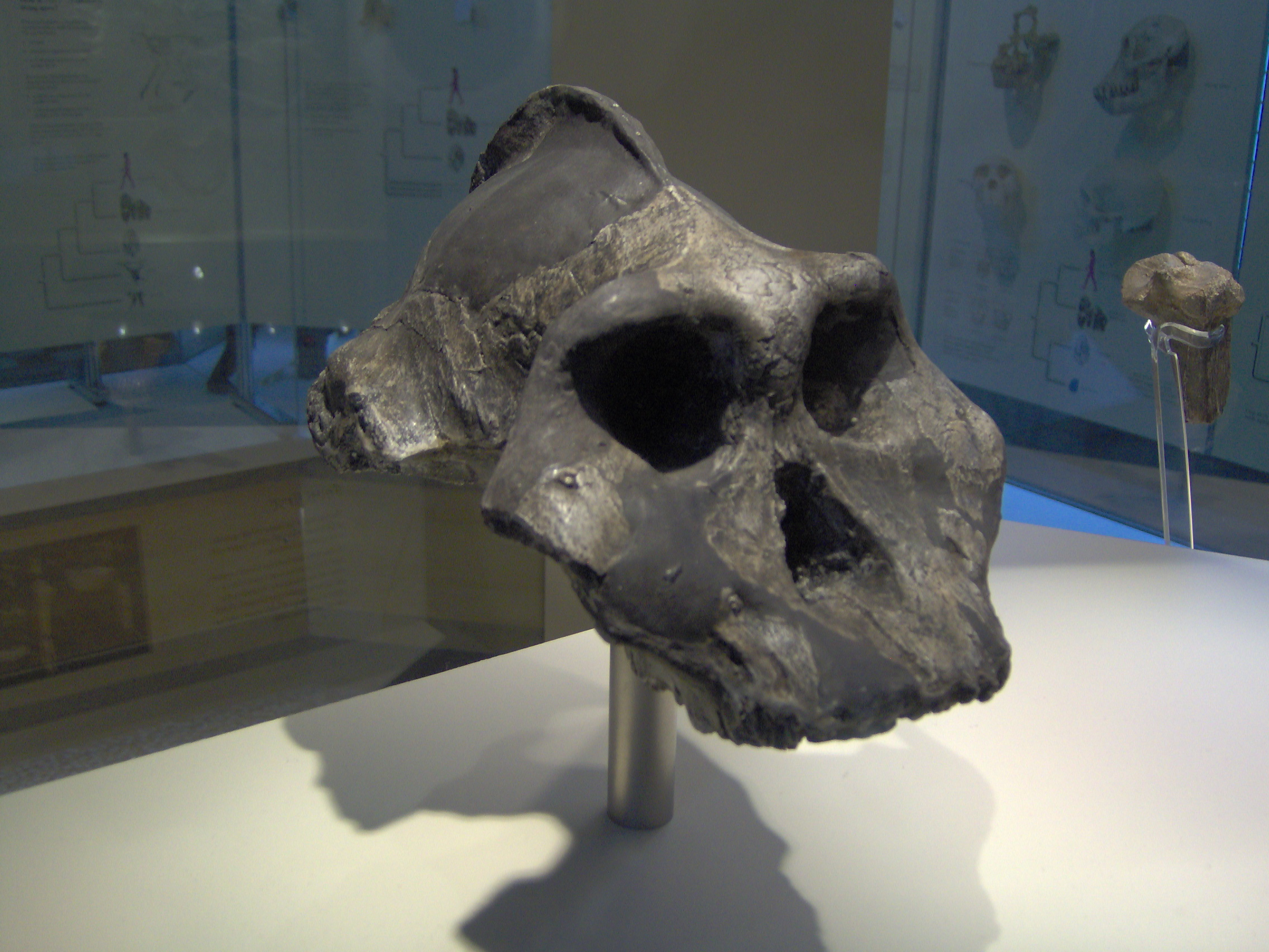 Modell av en Paranthropus aethiopicus. Natural History Museum, London